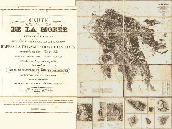 Carte de la Morée redigée et gravée au dépôt général de la guerre d'après la triangulation et les levés exectués en 1829, 1830 et 1831.